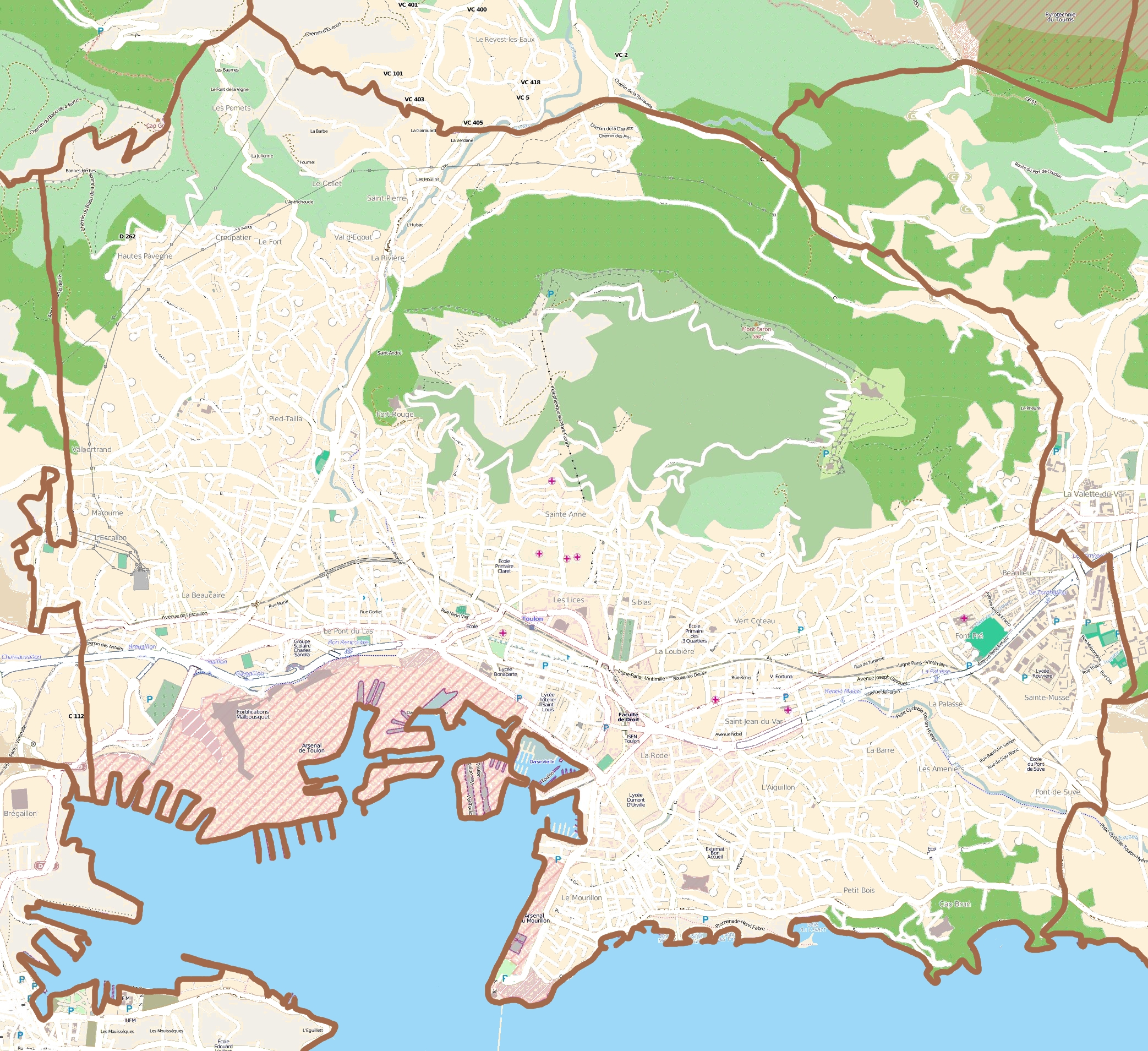 Map of Toulon, France